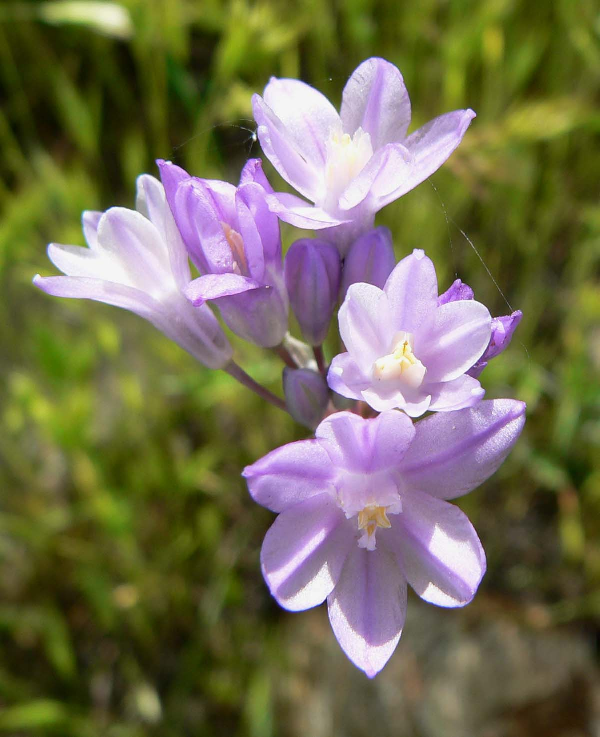 Photo of Dichelostemma capitatum (blue dicks) in Palm Canyon, Colorado Desert, California.